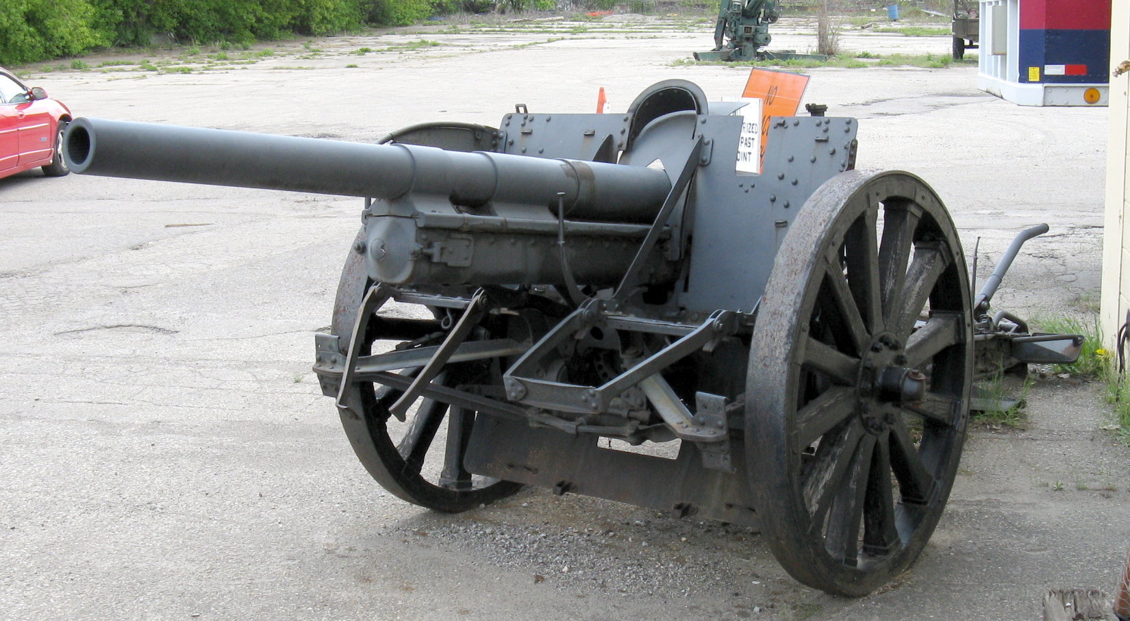 German 7.7 cm FK 16 cannon at Canadian Military Heritage Museum in Brantford, Ontario